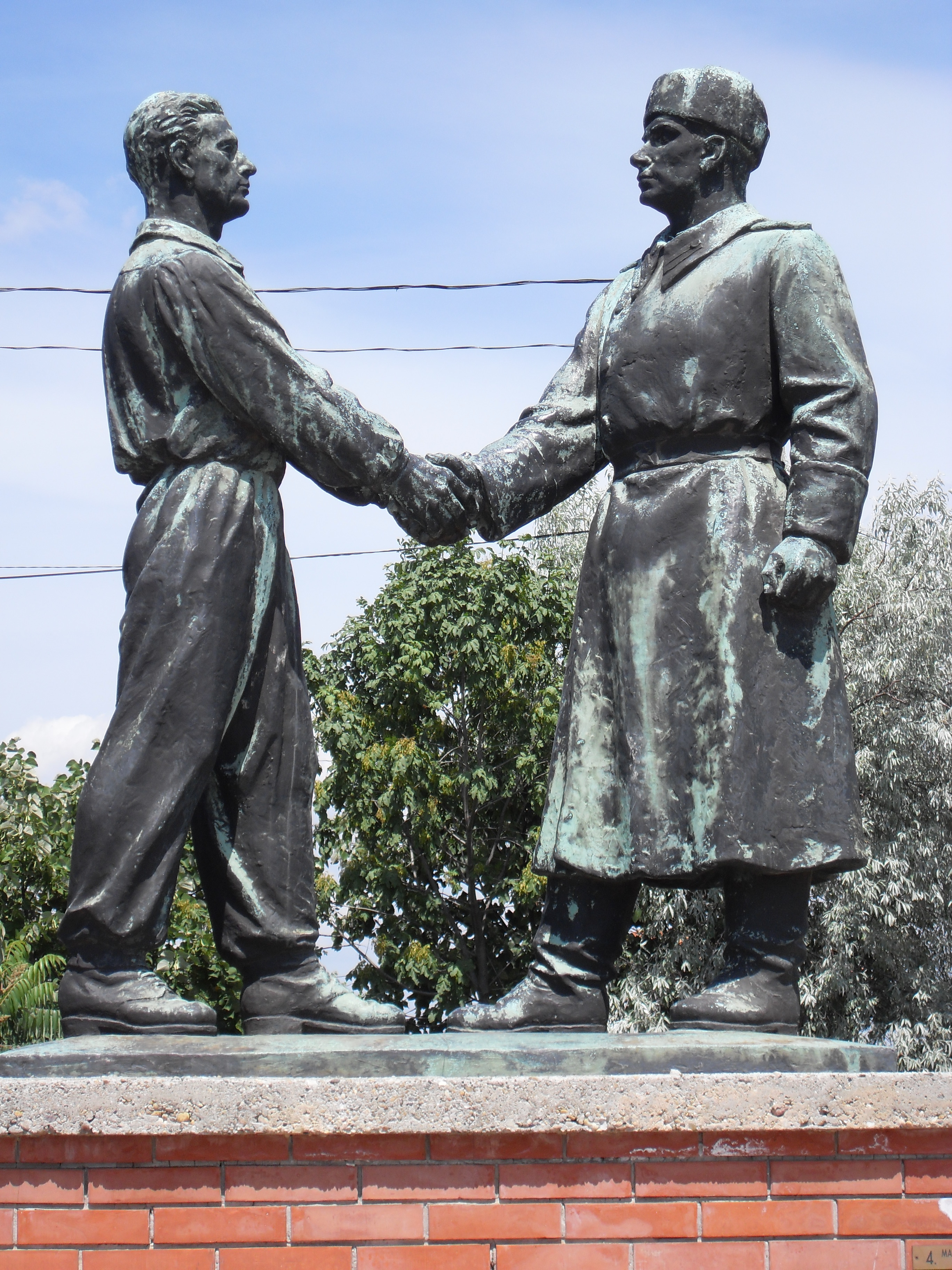 Hand-shake at Hungarian-Soviet Friendship Memorial. The author of the bronze monument is the popular hungarian sculptor Zsigmond Kisfaludi Strobl who finished it in 1956. Origynally the monumets stood at Pataki (ma: Szent László) tér. Today it can be seen at the Statue Memento Park (Szoborpark) in Budapest, Hungary.